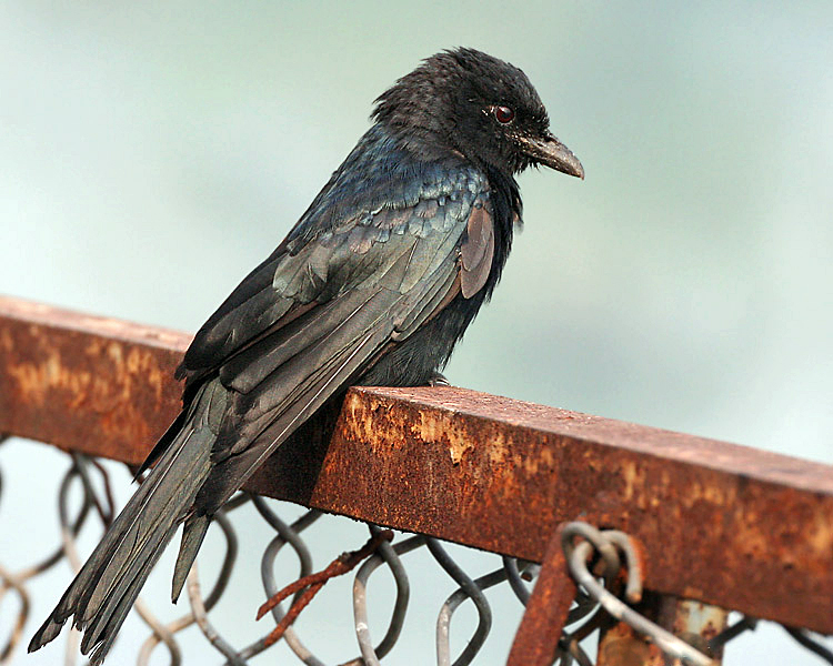 Ashy Drongo Dicrurus leucophaeus in Kolkata, West Bengal, India.